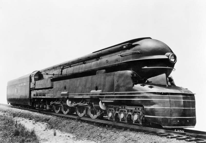 Photo of the Pennsylvania Railroad's S1 locomotive "Pennsylvania".